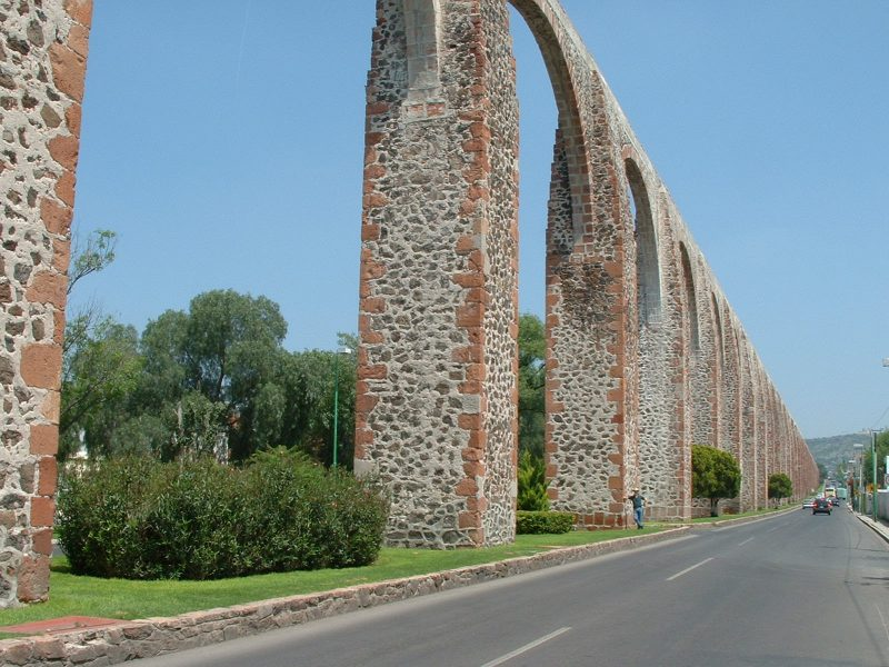 This is a photo from the aqueduct taken by me in 2002.